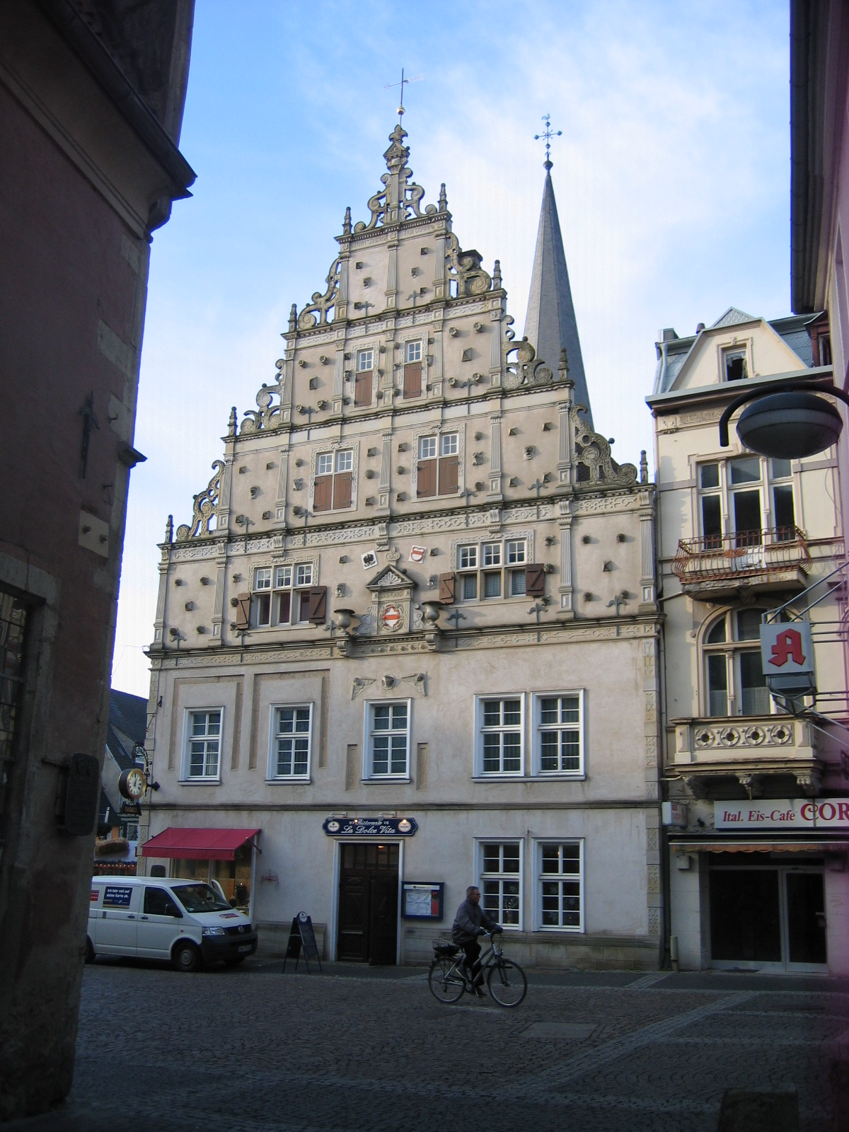 Historic town hall in Herford, District of Herford, North Rhine-Westphalia, Germany.